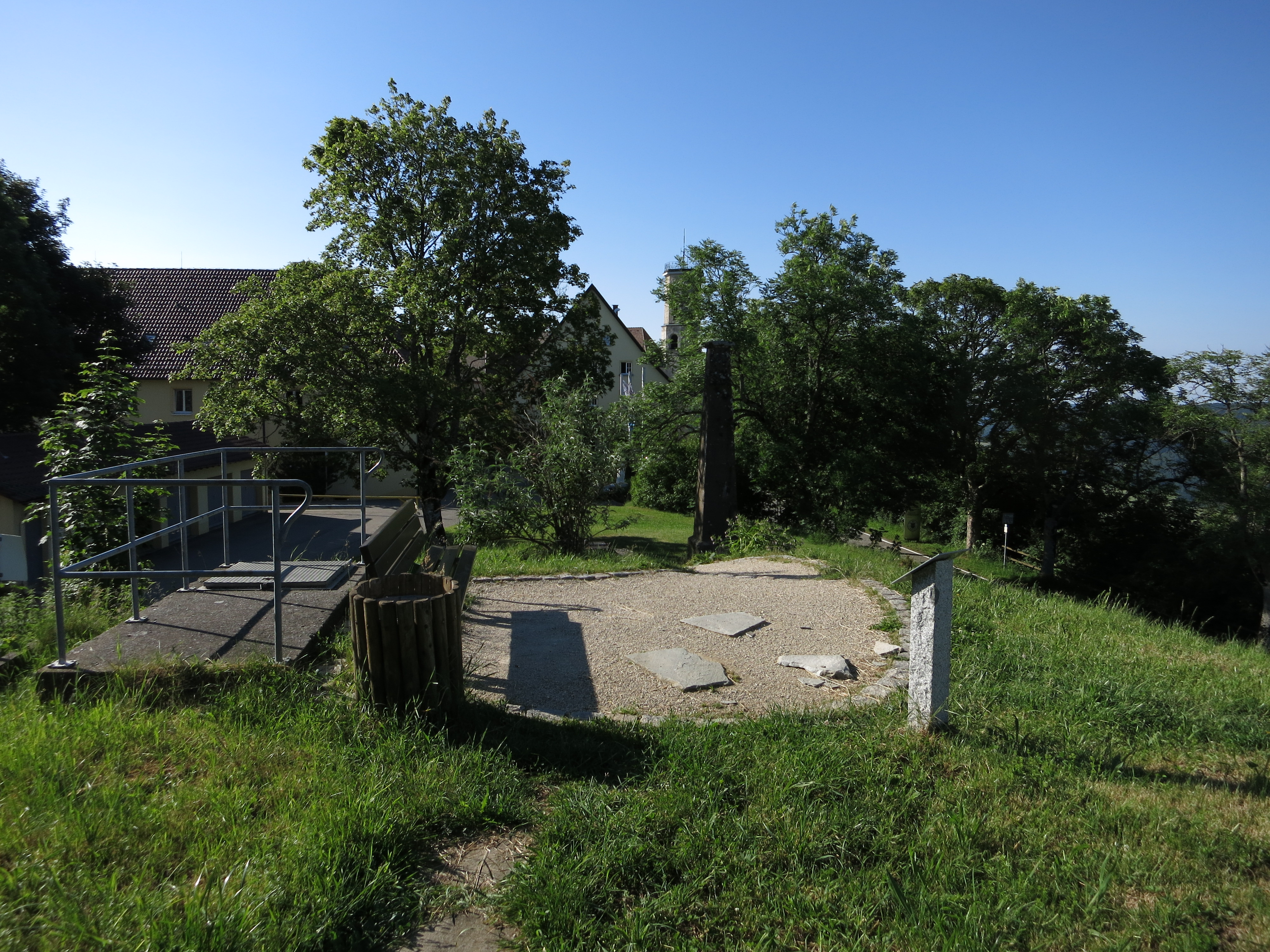 On top of Dreifaltigkeitsberg, Schwaebische Alb